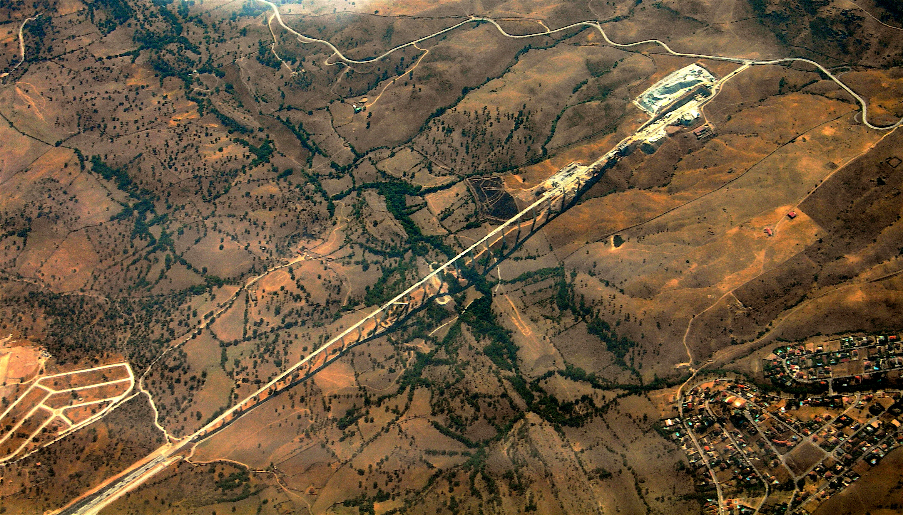 Arroyo del Valle AVE railway viaduct between Soto del Real and Miraflores de la Sierra, in the Community of Madrid (Spain).